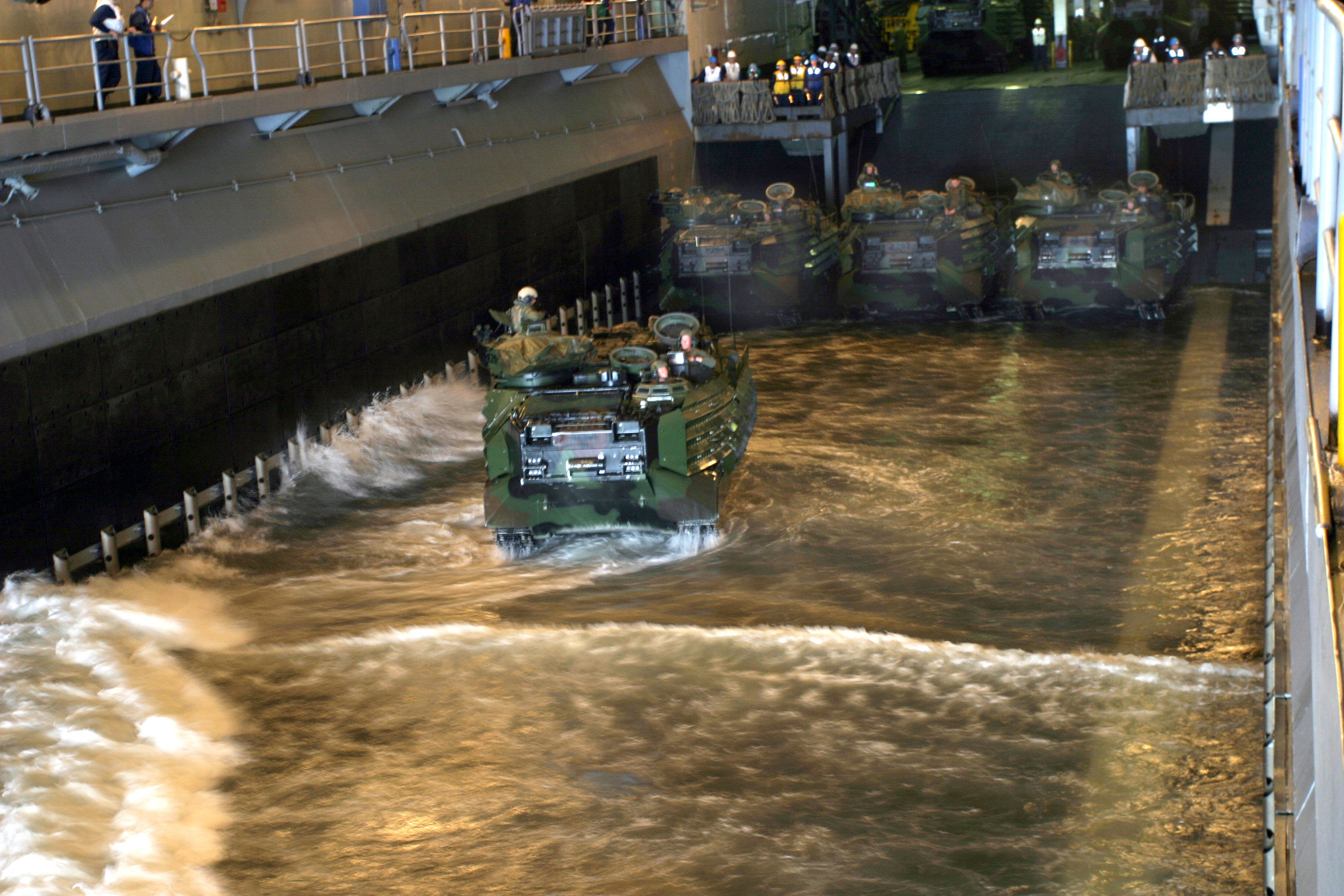 A Pacific Ocean (Apr. 26, 2004) - An Amphibious Assault Vehicle assigned to the 3rd Amphibious Assault Battalion, Camp Pendleton, Calif., maneuvers inside the well deck aboard the Wasp class amphibious assault ship USS Bonhomme Richard (LHD 6). Bonhomme Richard is at sea conducting Amphibious Specialty Training while undergoing a Tailored Ship's Training Assessment (TSTA), in preparation for their upcoming deployment. U.S. Navy photo by Photographer's Mate 3rd Class Jennifer Rivera. (RELEASED)